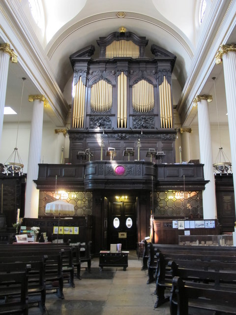 1712 organ, the first to have a swell-box, by Abraham Jordan (father and son) in St Magnus the Martyr church by London Bridge